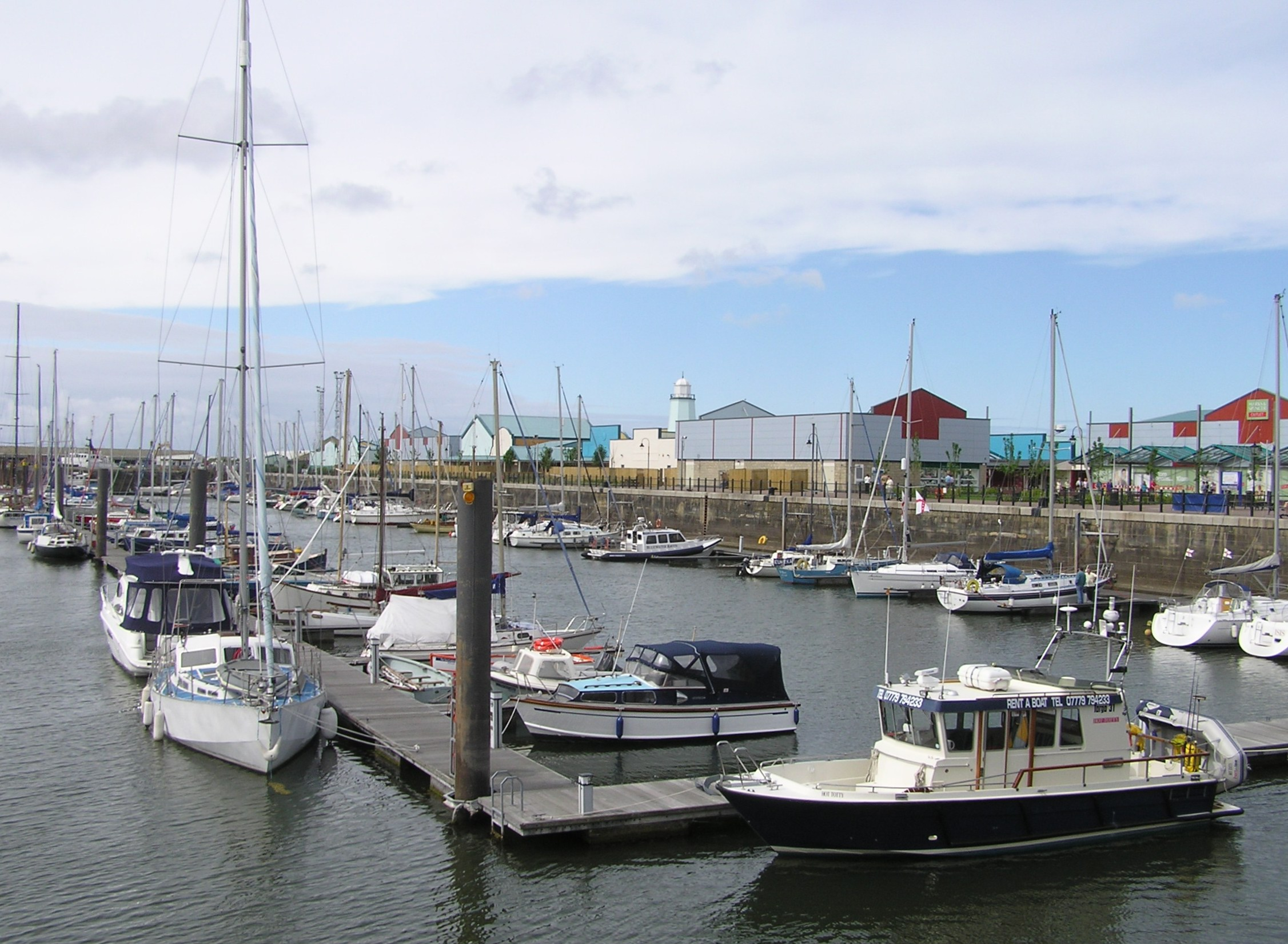 Fleetwood Marina and Freeport July 2006